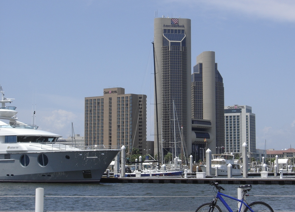 Omni hotels and American Bank towers in Corpus Christi, Texas.